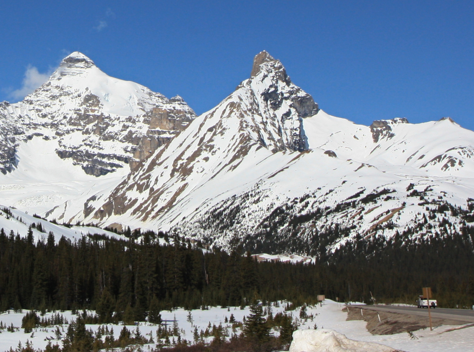 Hilda Peak centered with Mount Athabasca behind to left. Alberta, Canada